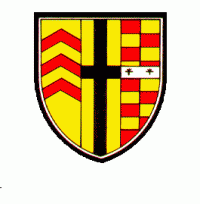 School logo